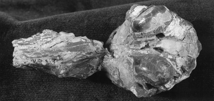 Cropped image of taxon in file name